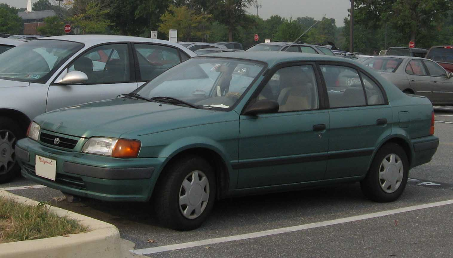 1995-1999 Toyota Tercel photographed in USA.